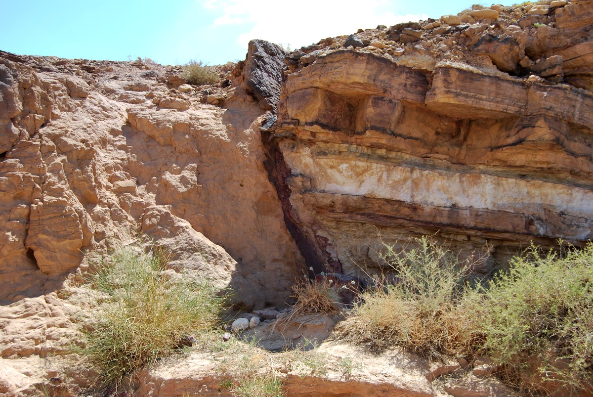 Fault in Nahal Ramon, Israel